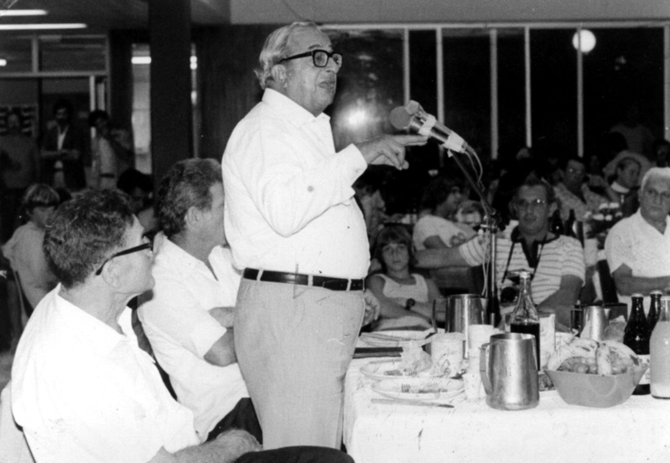 People of Israel